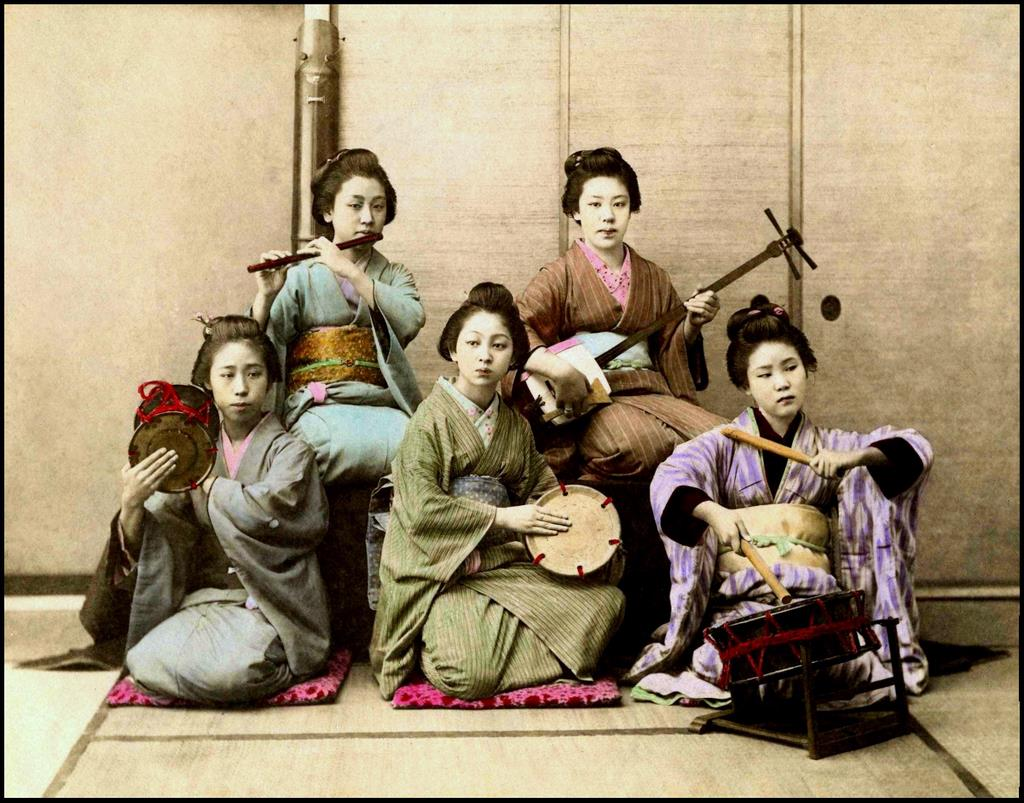 hand tinted albumen print